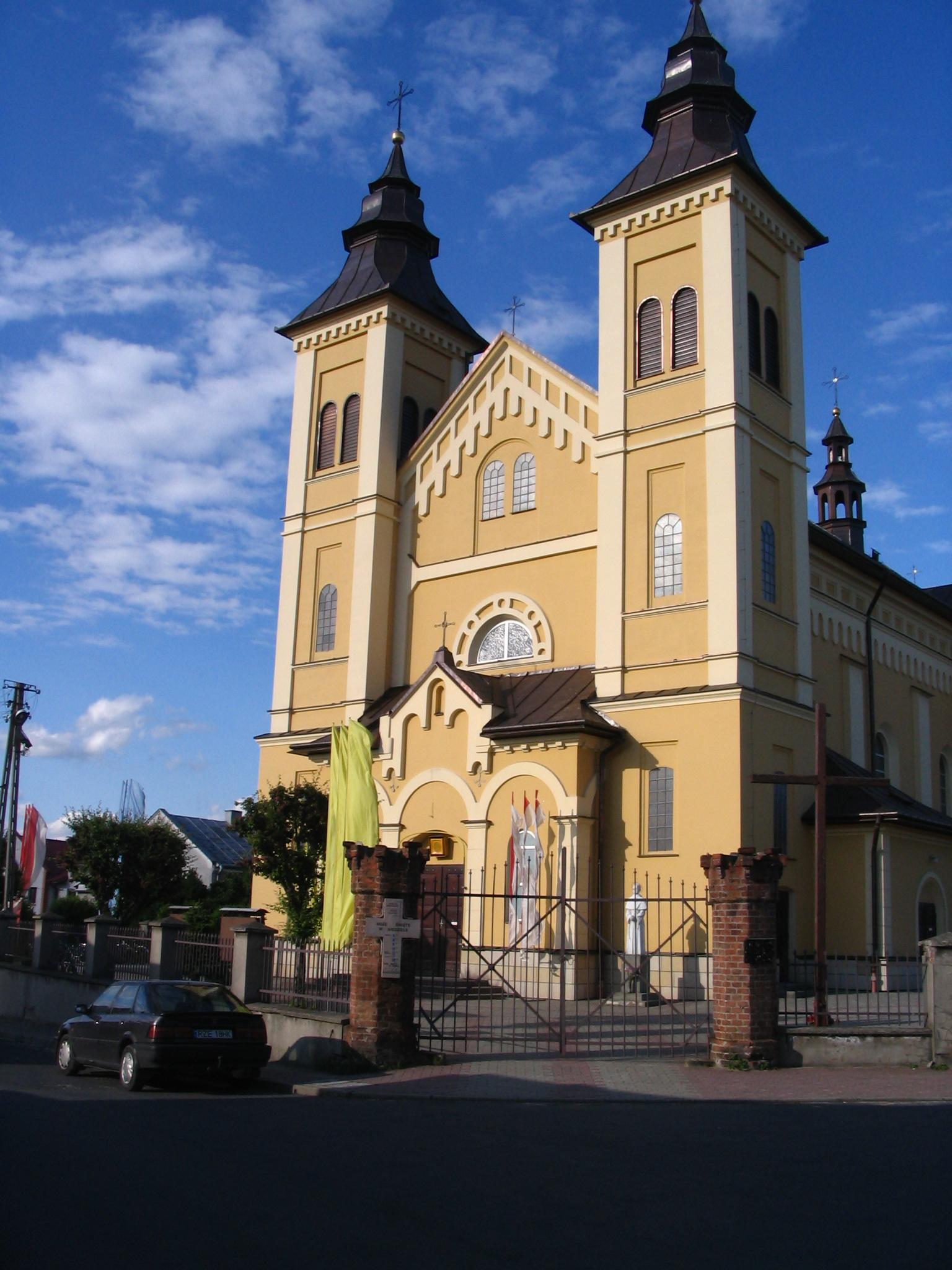 An old church in Głogów Małopolski (small city in south-eastern Poland)